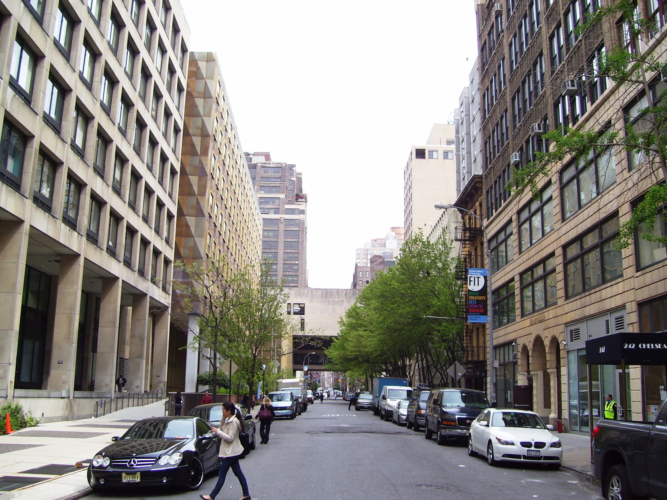 The 27th Street Campus of the Fashion Institute of Technology between Seventh and Eighth Avenues in the Chelsea neighborhood of Manhattan, New York City, seen from about 3/4s of the way towards Eighth.